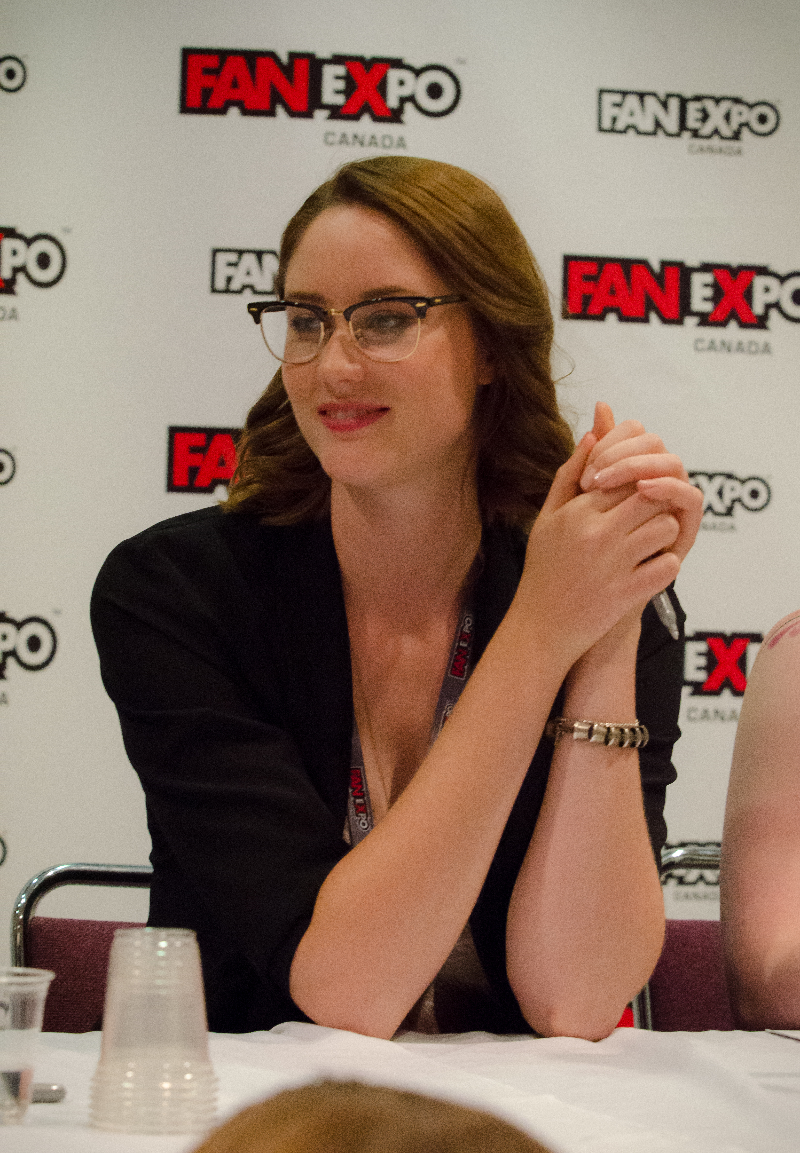 Precious Sharon Panel for the webseries Carmilla at Fan Expo Canada in Toronto in 2015.